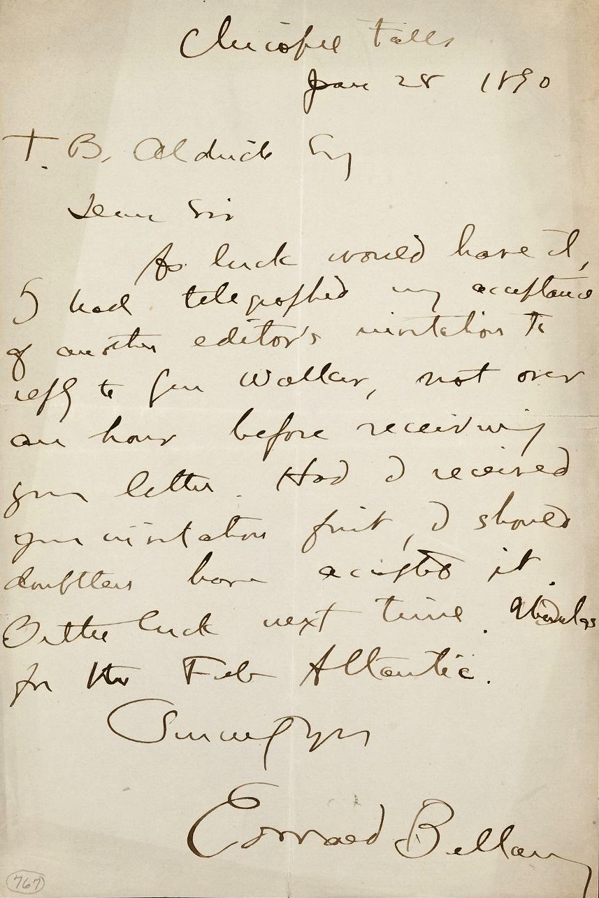 Letter from Edward Bellamy (1850-1898) to [Thomas Bailey] Aldrich (1836-1907), from Chicopee Falls (Massachusetts), 28 Jan 1890. Thomas Bailey Aldrich papers, MS Am 1429 (1153), Houghton Library, Harvard University